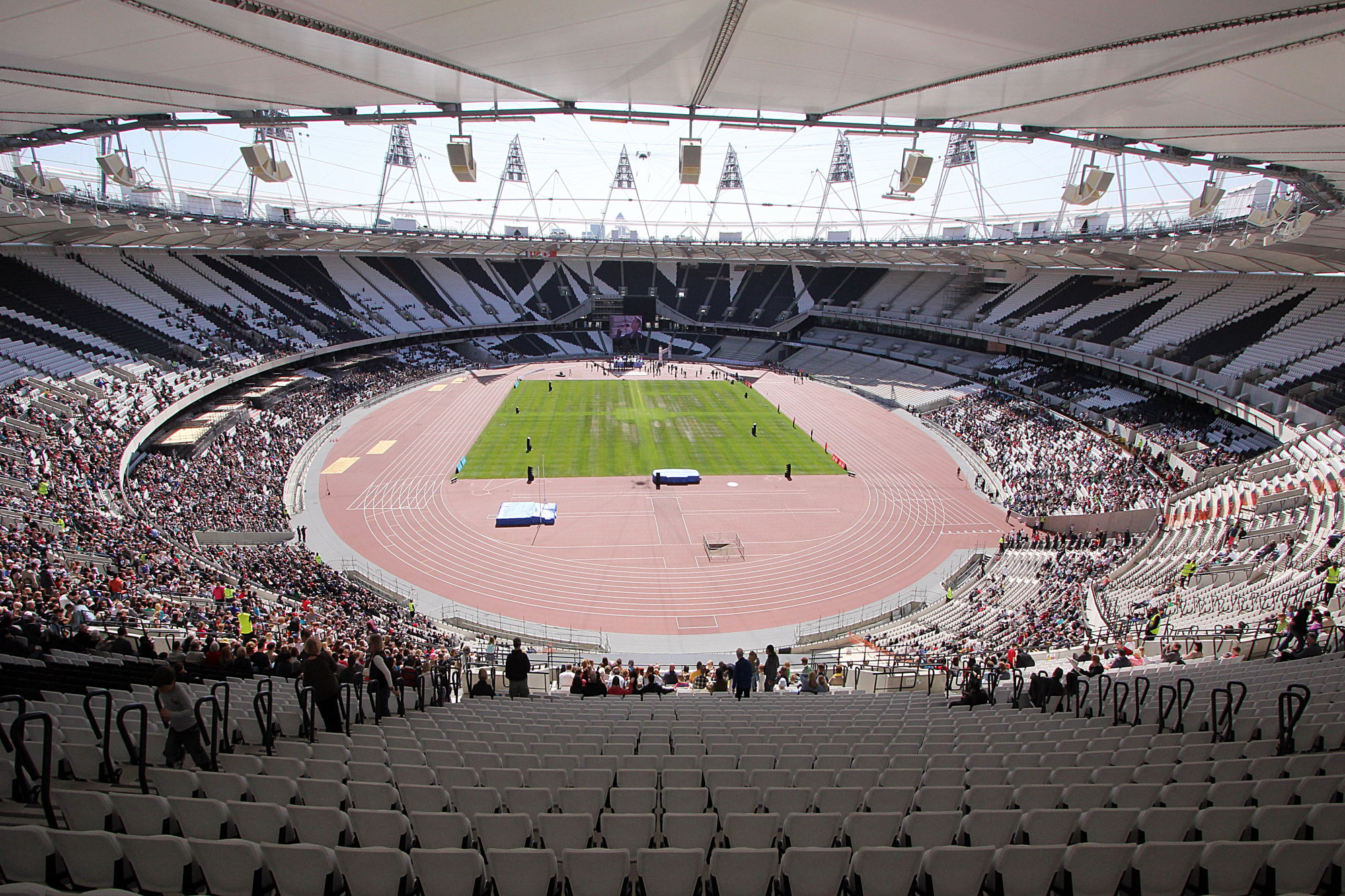 2012 Gold Challenge in the Olympic Stadium, April 2012